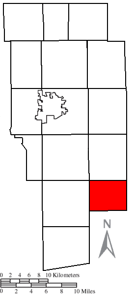 Originally created by the US Census. Modified by myself to highlight the township.